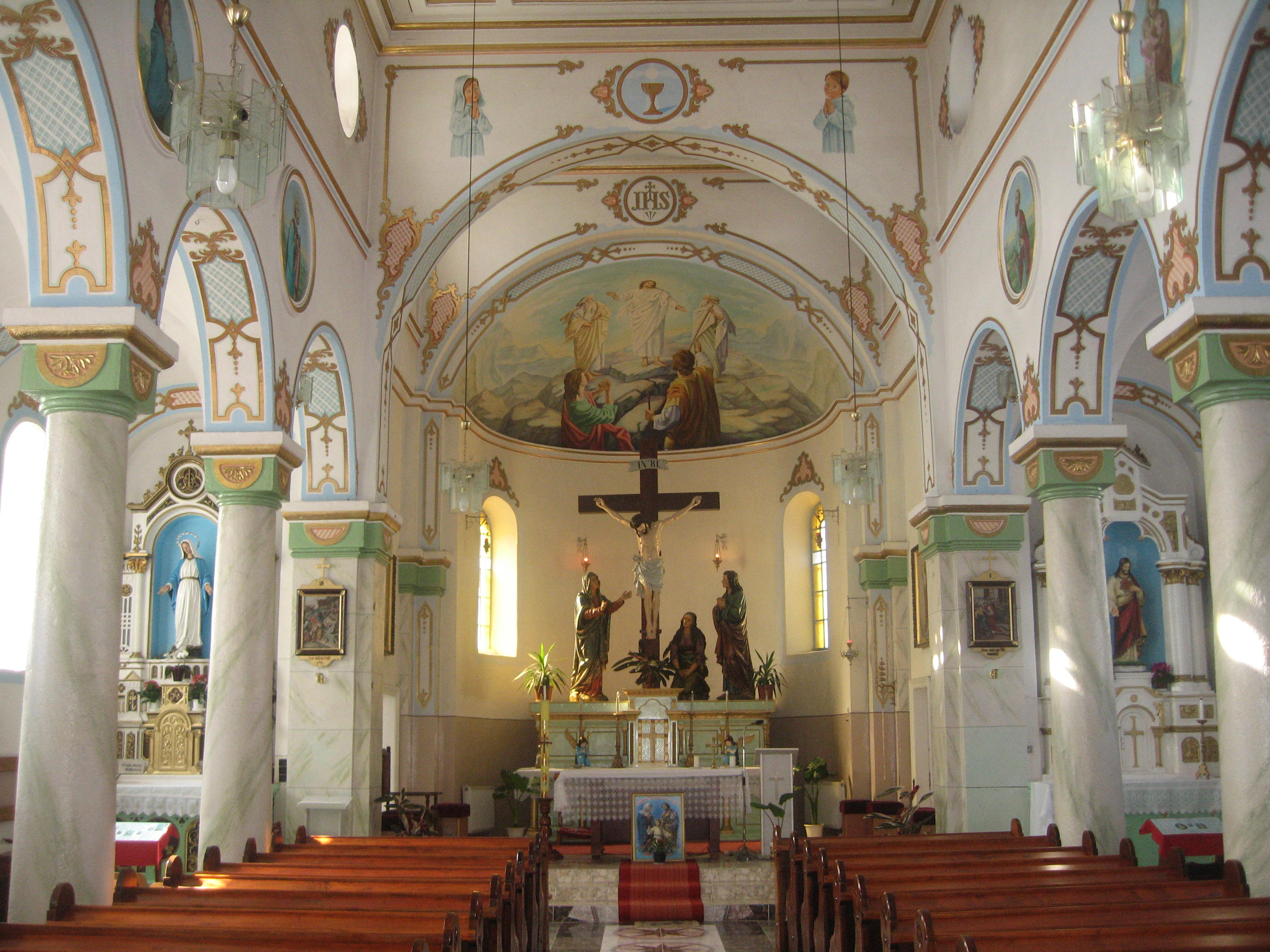 The Roman-Catholic Church in Vatra Dornei, Romania